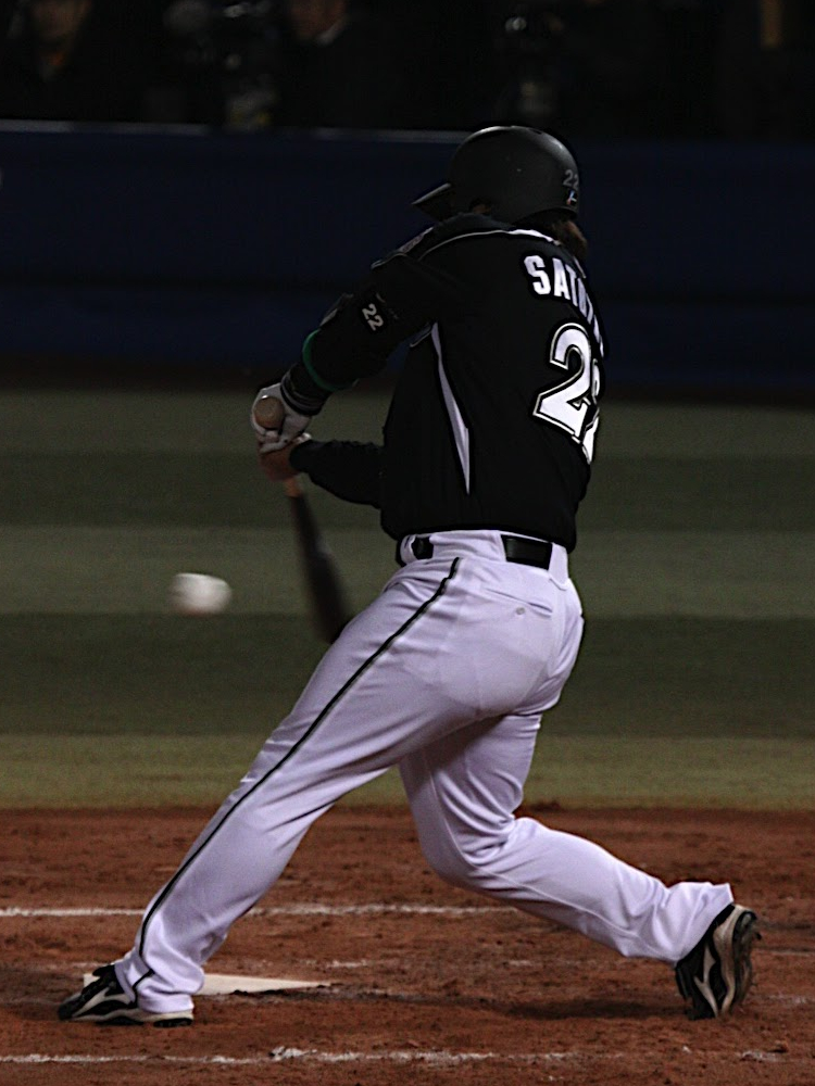 Tomoya Satozaki, catcher of the Chiba Lotte Marines, at Yokohama Stadium.